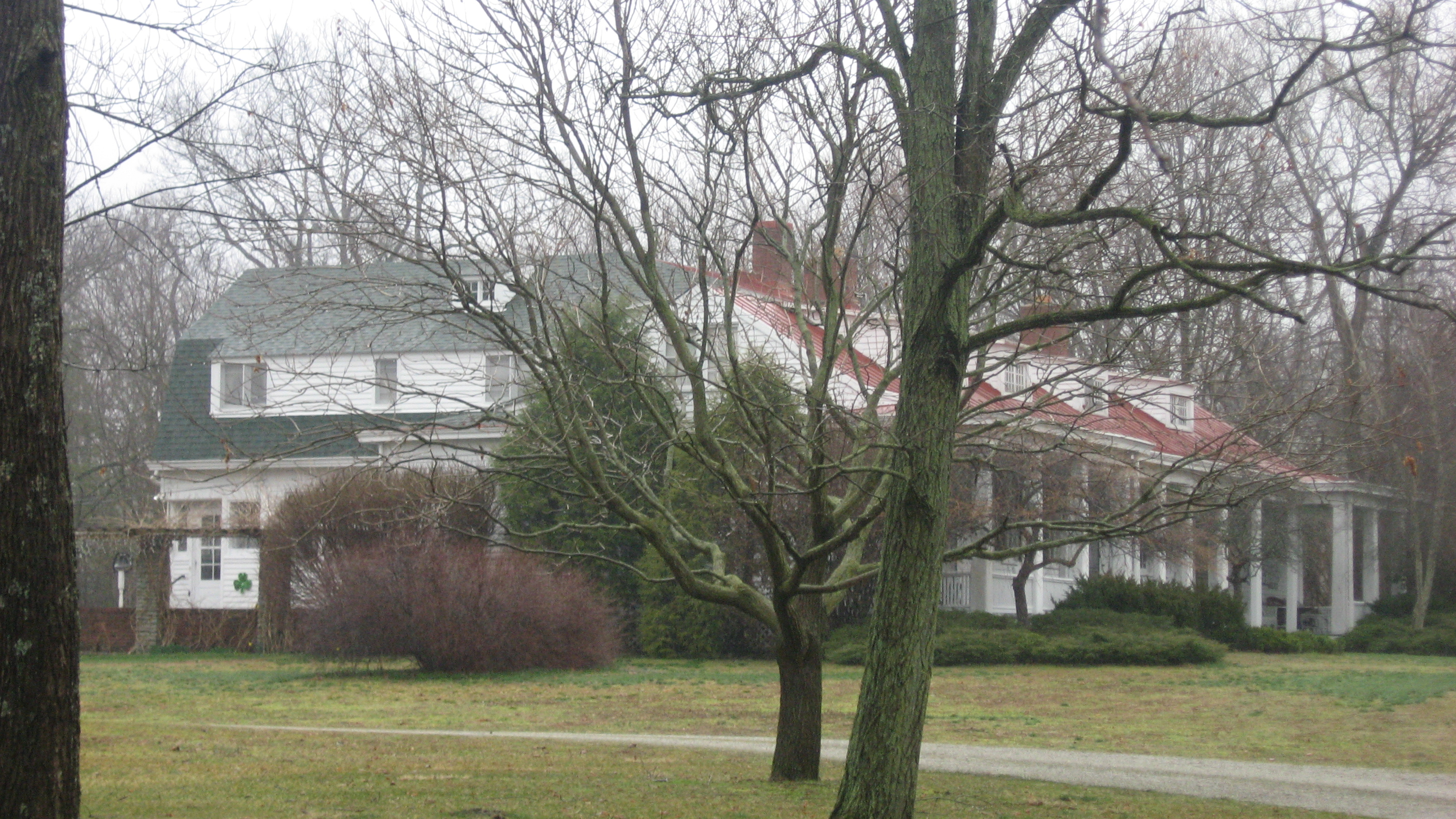 Driveway view of The Hermitage, located at 650 E. Eighth Street in Brookville, Indiana, United States. Built in 1898, it is listed on the National Register of Historic Places, and it is part of a Register-listed historic district, the Brookville Historic District.